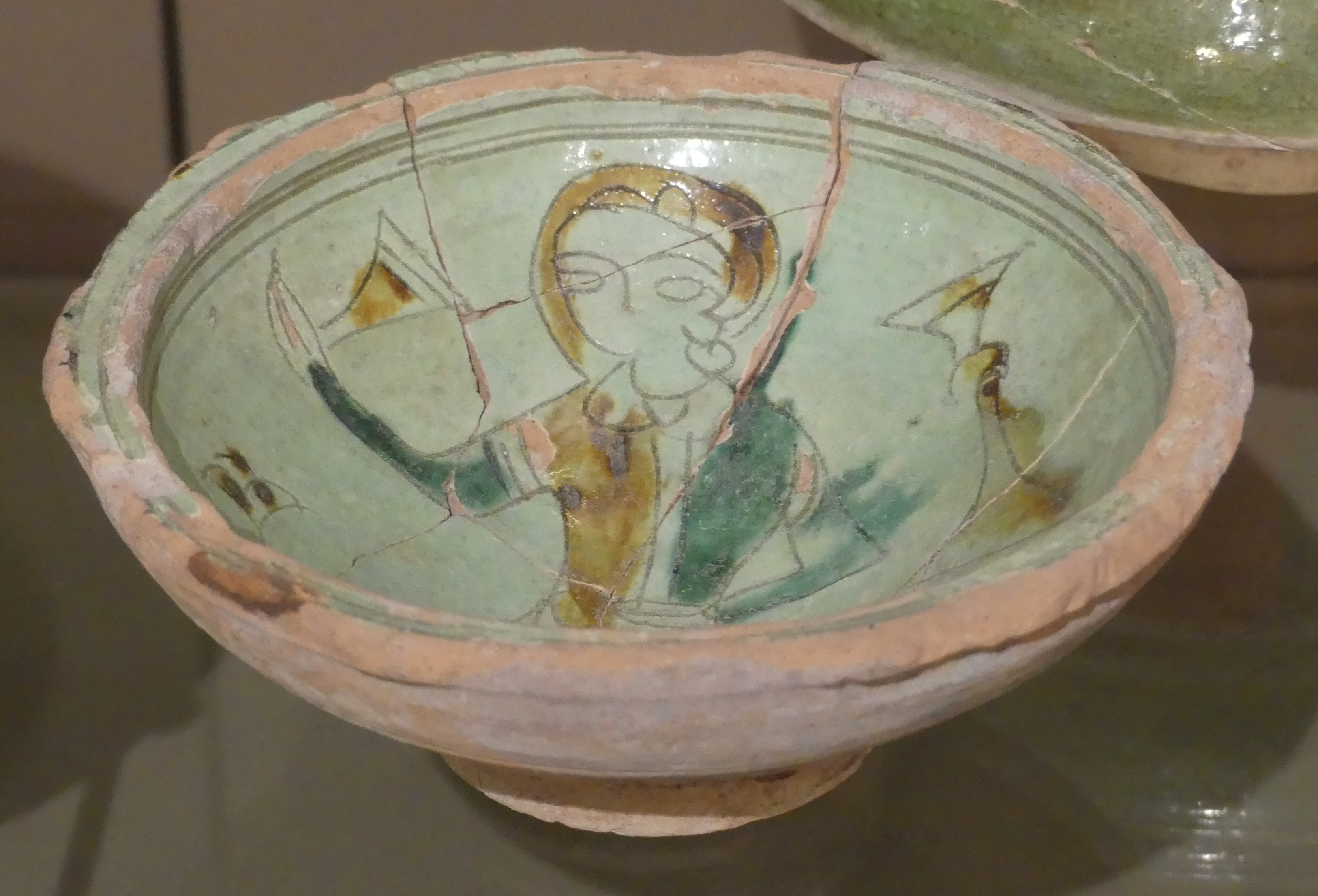 Terracotta cup with glaze, 12-13th c. A.D. (Crusader Period), from Tyre, on display at the National Museum of Beirut, Lebanon